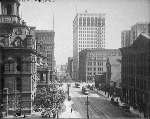 Griswold St Detroit, looking south from Michigan Ave c1910